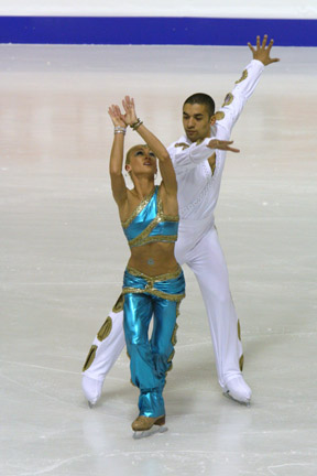 Aliona SAVCHENKO and Robin SZOLKOWY. European Championships 2008